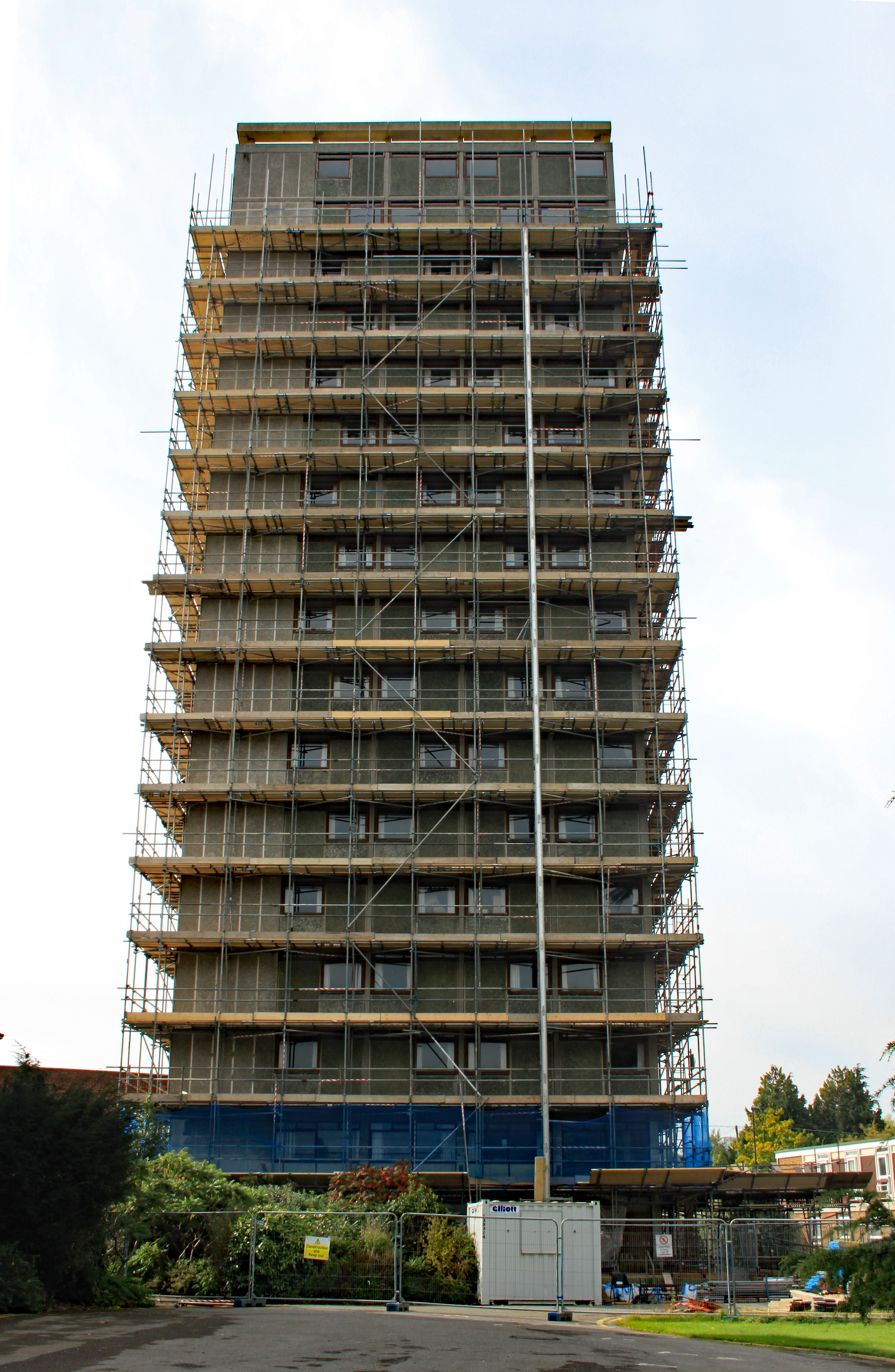 South Stoneham Hall is owned by Southampton University